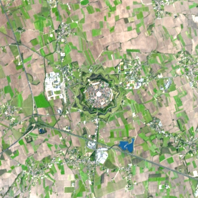 Satellite image of Palmanova - Udine - Italy